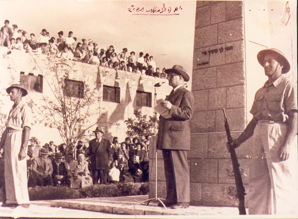 Mayor B. Ostrovsky is speaking to the people of Raanana in Independence Day at the soldier's monument.